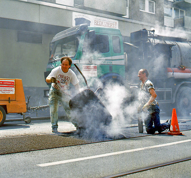 Roadmen mending the asphalt surface.